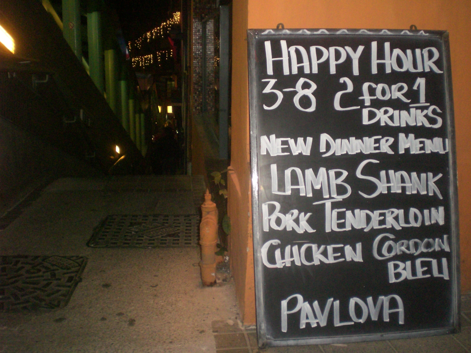 中環蘇豪區的zh:歡樂時光